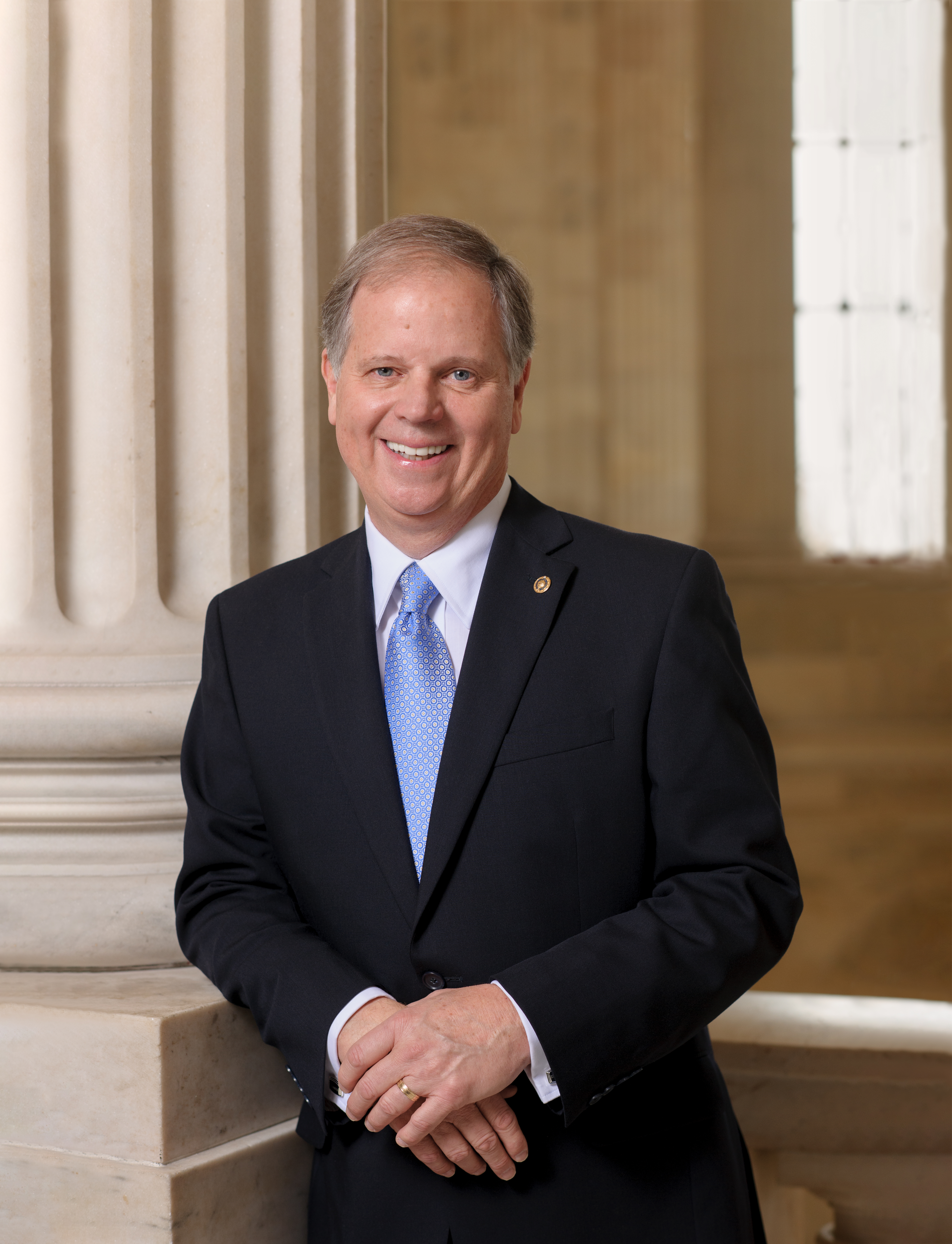 Official photo of Senator Doug Jones (D-AL)